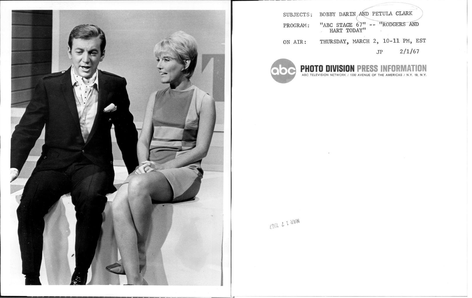 Photo of singers Bobby Darin and Petula Clark from the television program ABC Stage 67. This program featured the music of Rodgers and Hart.